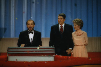 President Ronald Reagan, Nancy Reagan, Lee Greenwood, Elizabeth Dole at the 1988 RNC